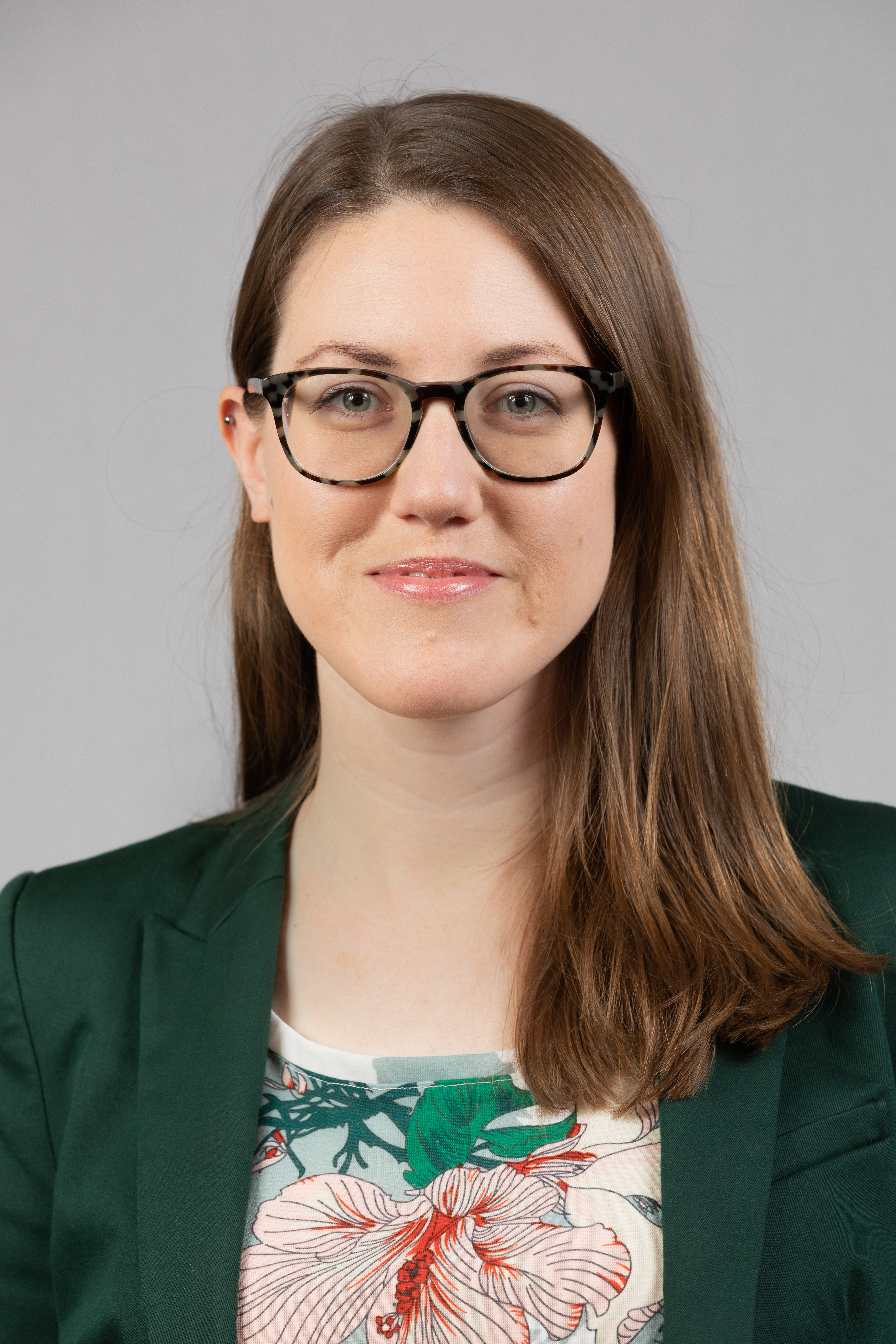 Miriam Dahlke, Landtag of Hesse, Wiesbaden, April 3rd, 2019